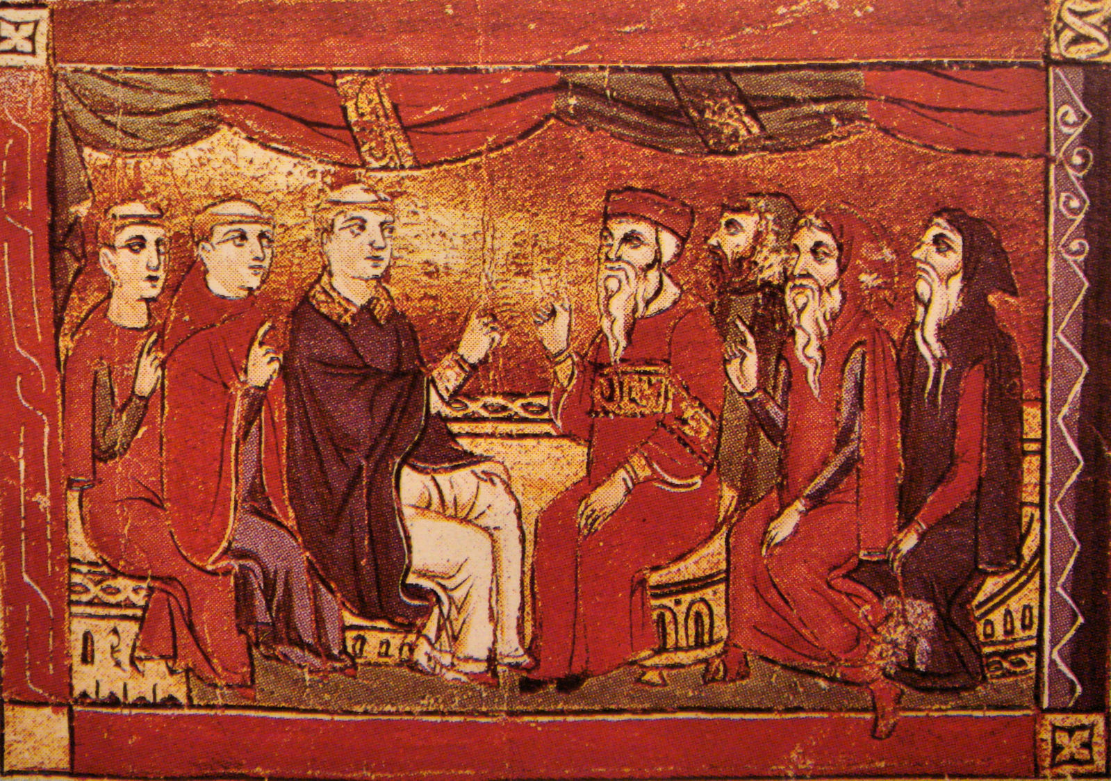 Debate between Catholics and Oriental Christians in the 13th century, Acre 1290.